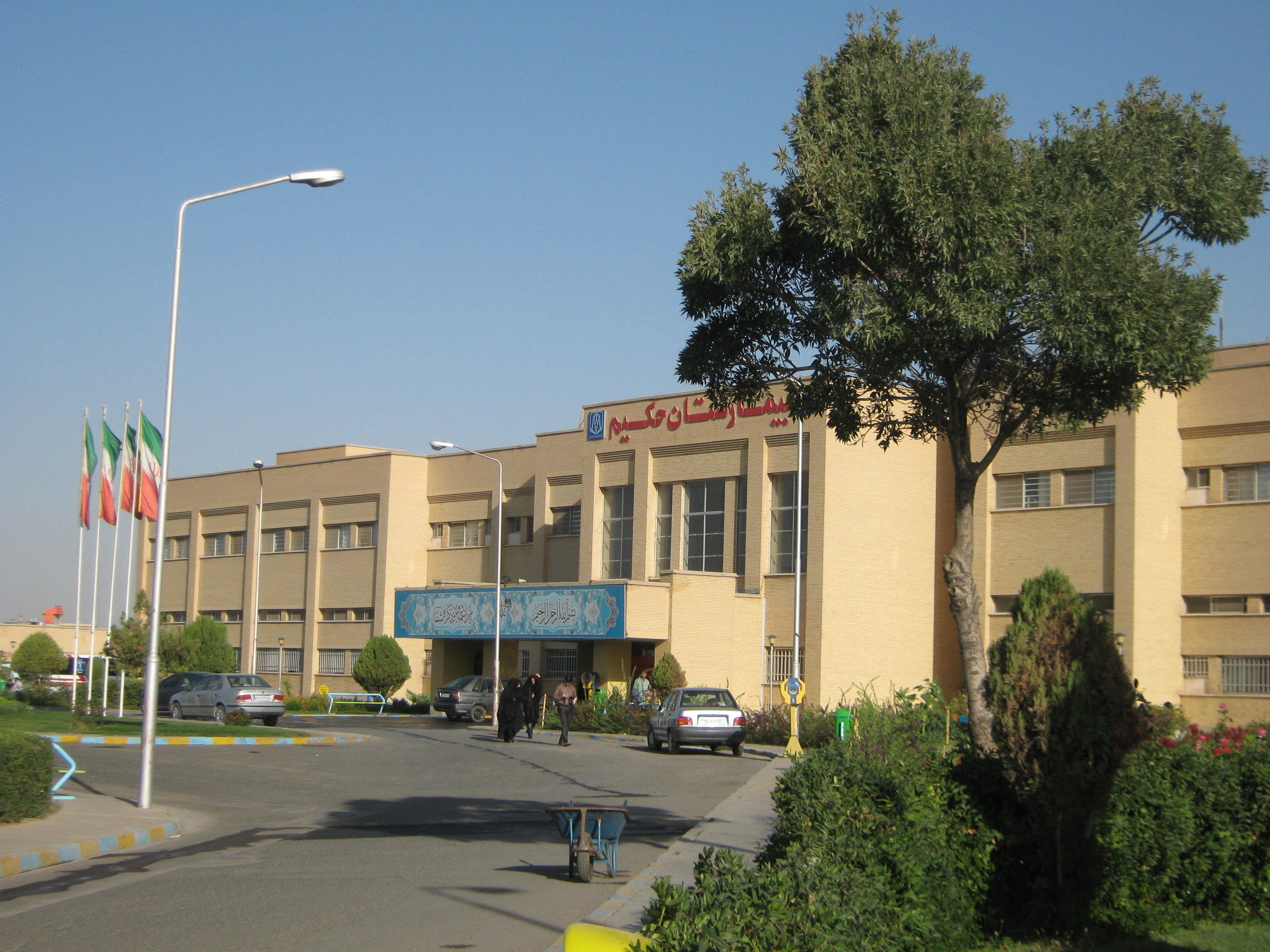 Hakim Hospital of Nishapur - Main enterance and Flags